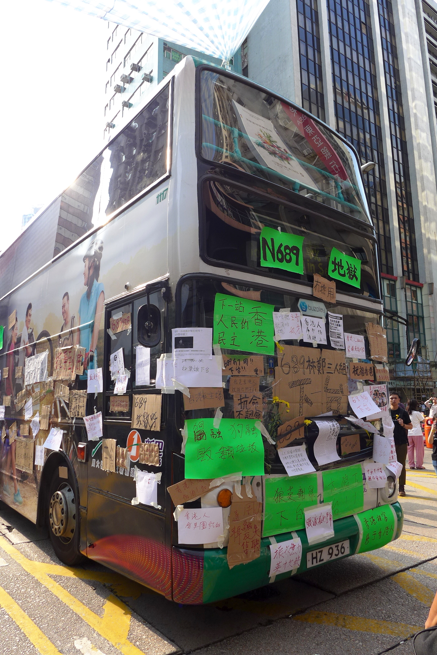 Occupy Central NWFB Bus Message in Mong Kok